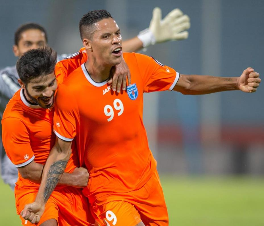 Patrick Fabiano celebrating goal against Al Salmiya Club. ; 2 November 2015 ; Al-Sadaqua Walsalam Stadium, Kuwait